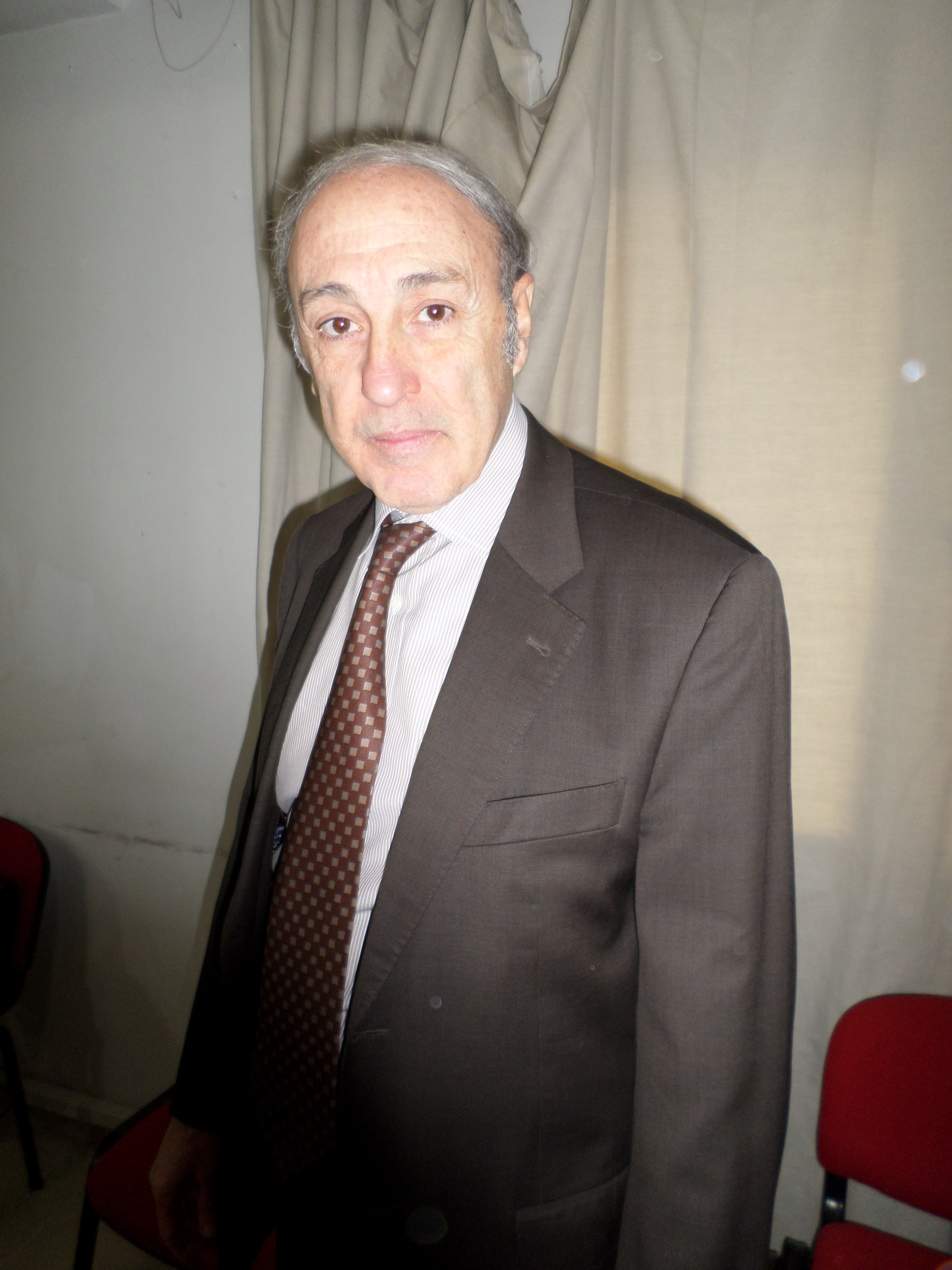 Afif Chelbi (1953- ), Tunisian former minister of industry